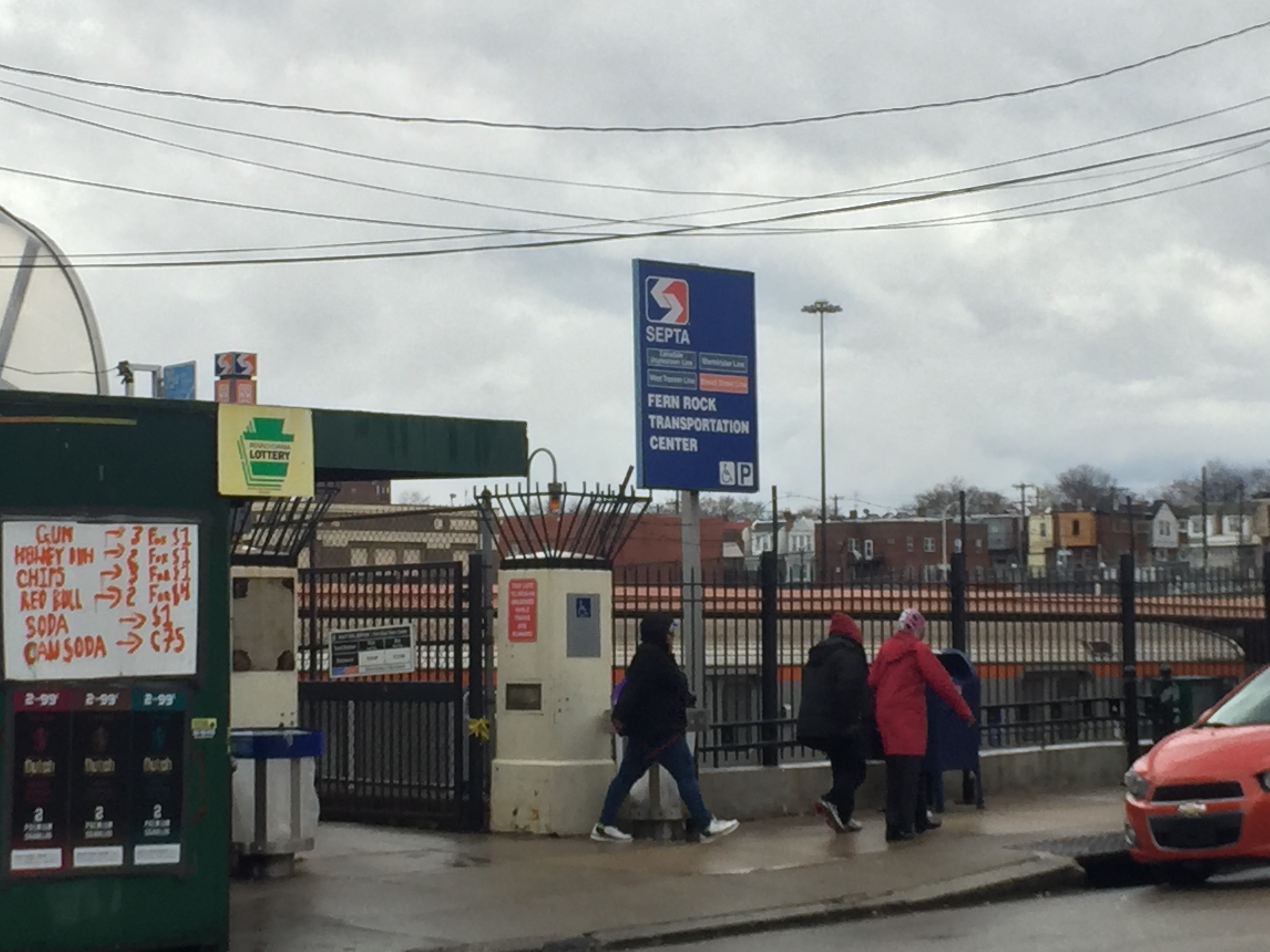 Fern Rock Transportation Center